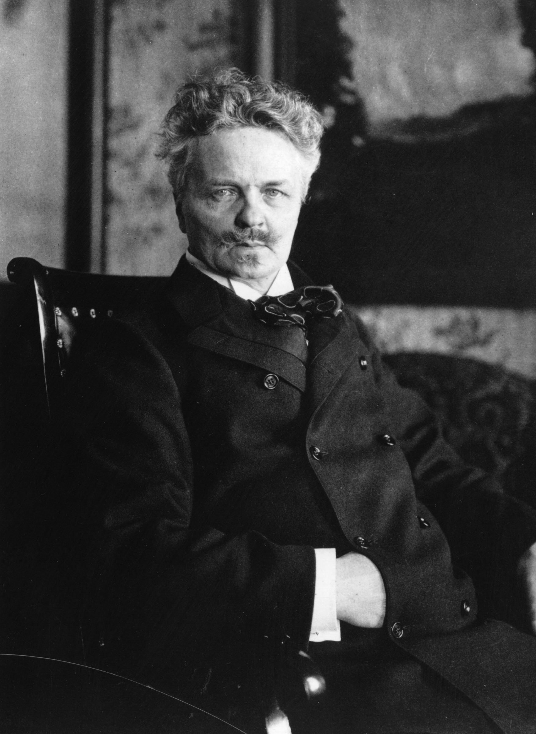 Photograph of August Strindberg (1849-1912). This is a photo of Strindberg after his 50th birthday, when he was finally settled in Sweden. It is possible that this is a 1902 photo of Strindberg by photographer Herman Anderson (1856−?)